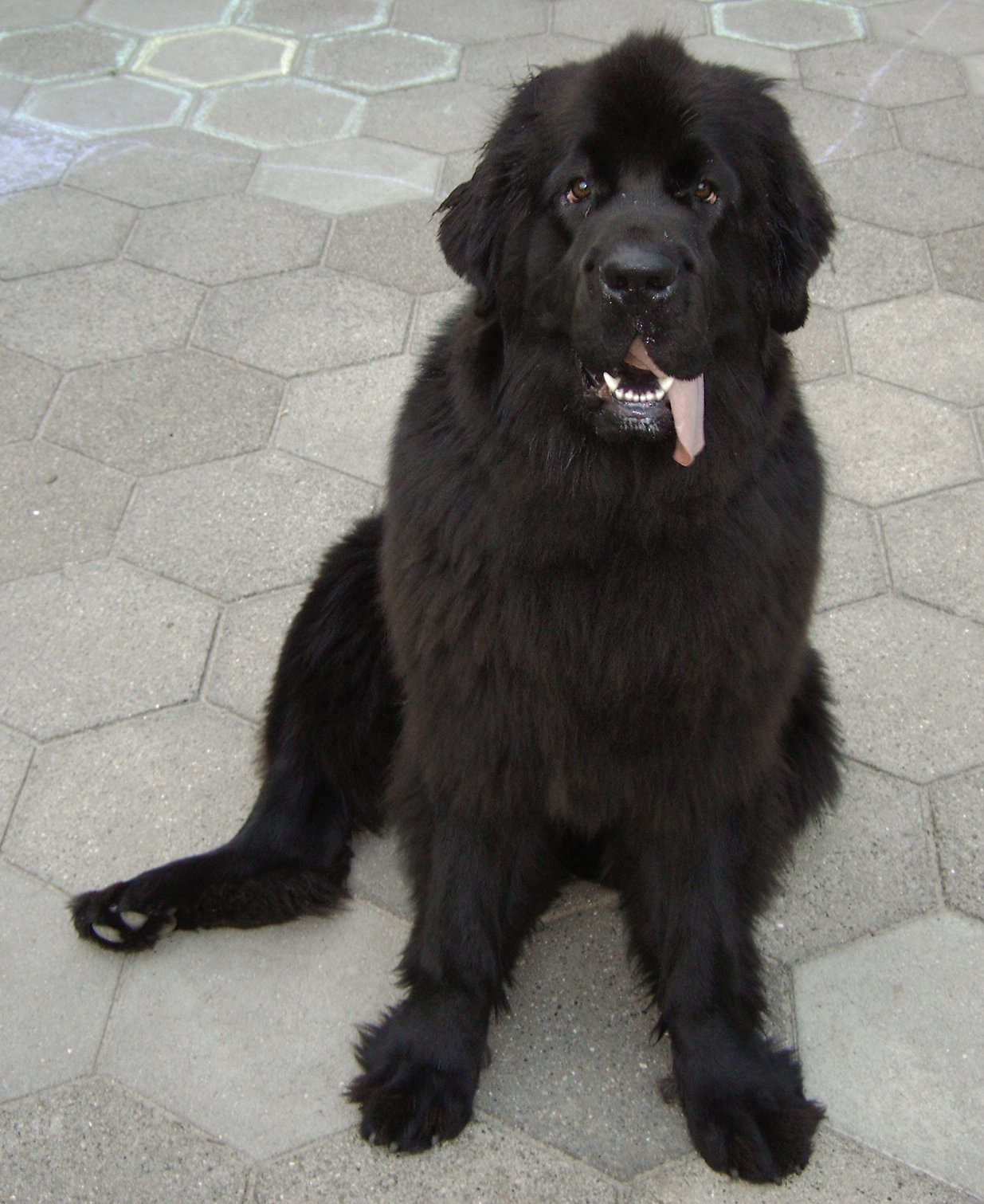 Female Newfs